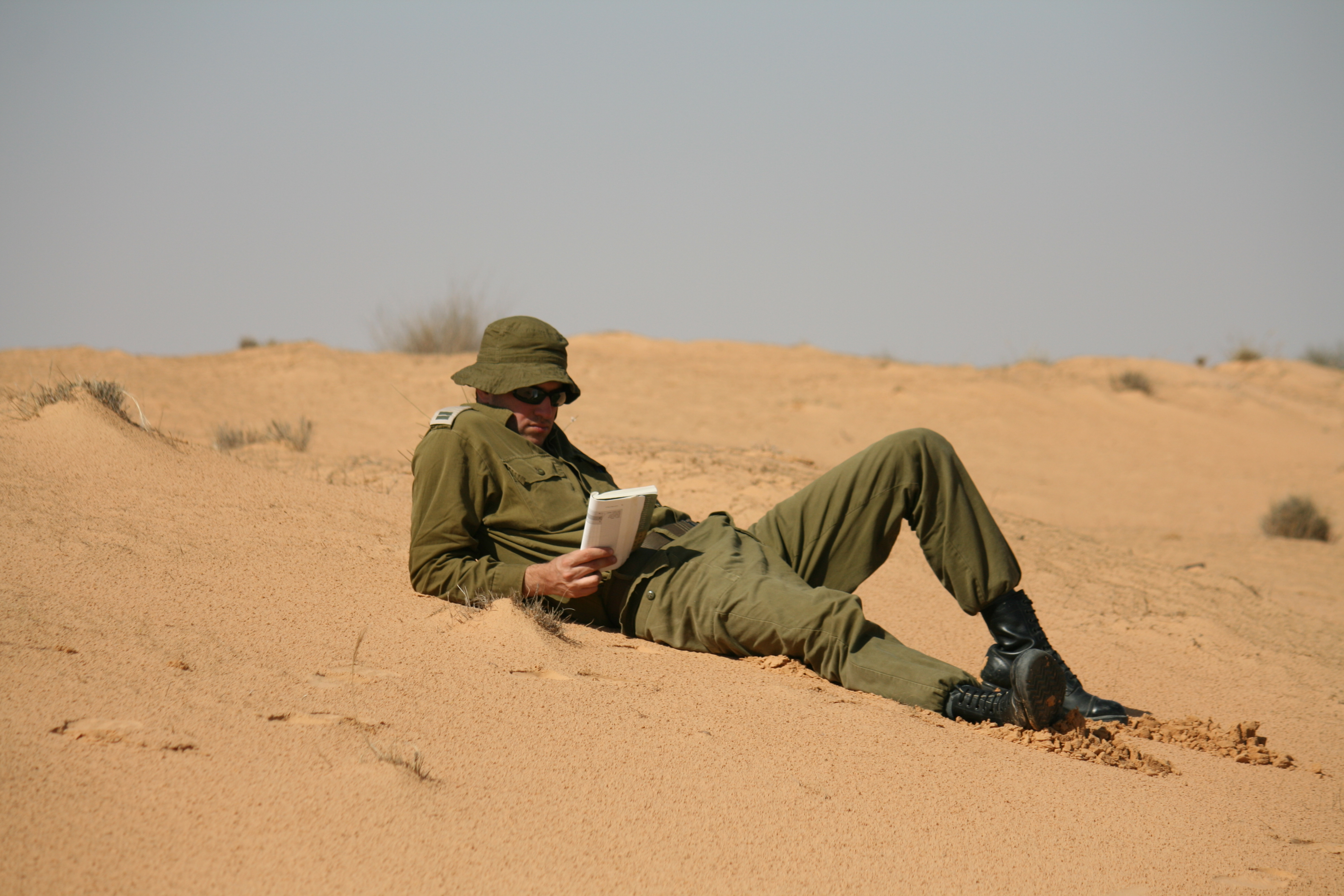 Nature and Colors